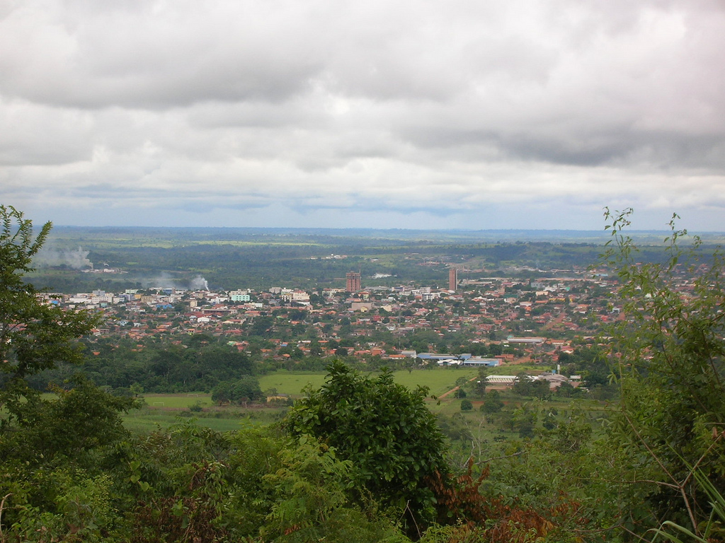 Partial view of Cacoal, Rondônia, Brazil.